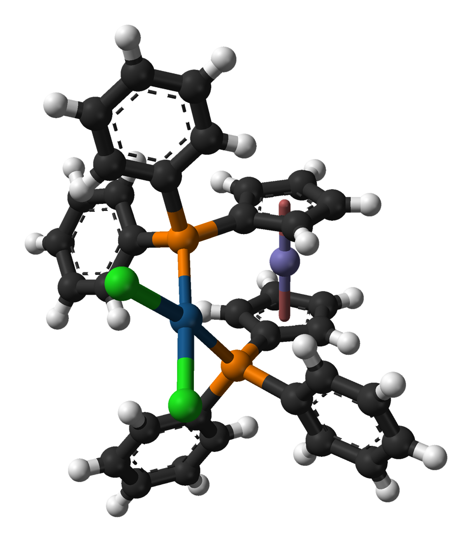 Ball-and-stick model of a complex of dppf with PtCl2. X-ray crystallographic data from A. Muller (January 2007). "[1,1'-Bis(diphenylphosphino)ferrocene-κ2P,P']dichloroplatinum(II) chloroform solvate". Acta Cryst. E63 (1): m210-m212. Model constructed in CrystalMaker 8.1. Image generated in Accelrys DS Visualizer.